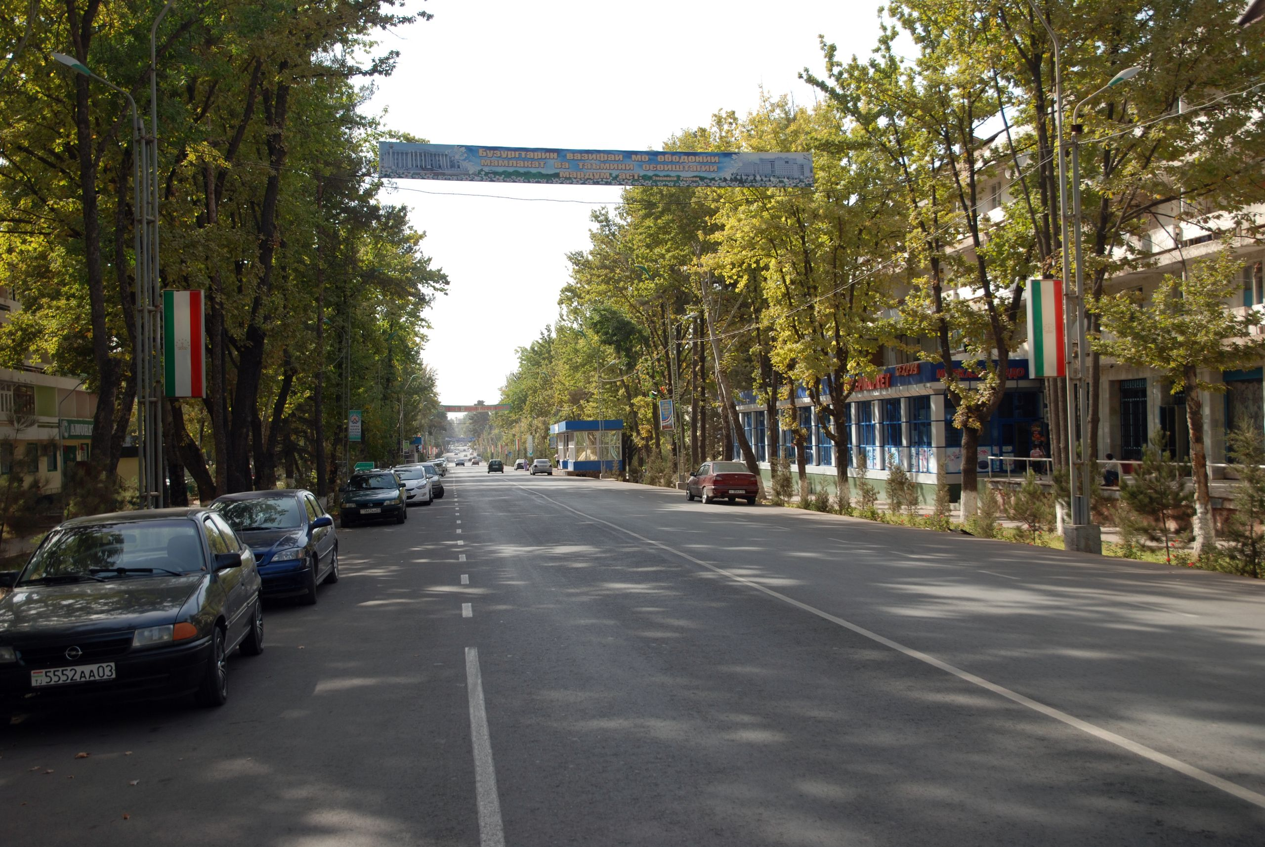 Nurek, Lenin street